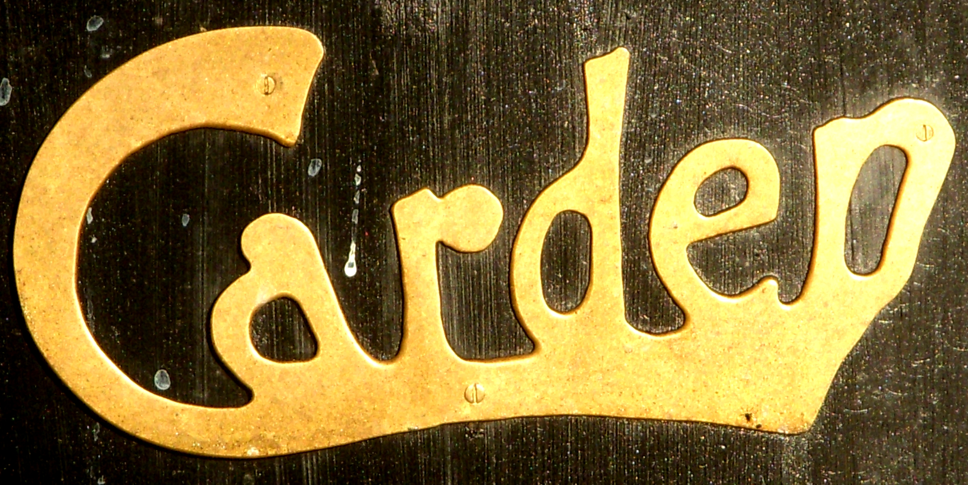 Carden cycle-car logo, nameplate